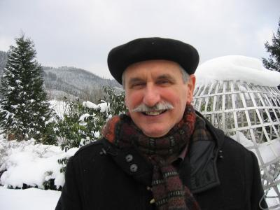 Swiss mathematician Sergio Albiverio in 2005.